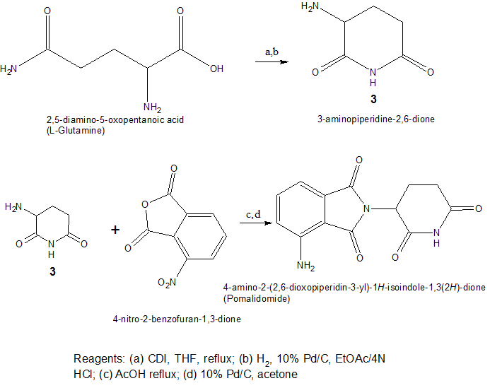 A way to synthesize pomalidomide, an analog of thalidomide